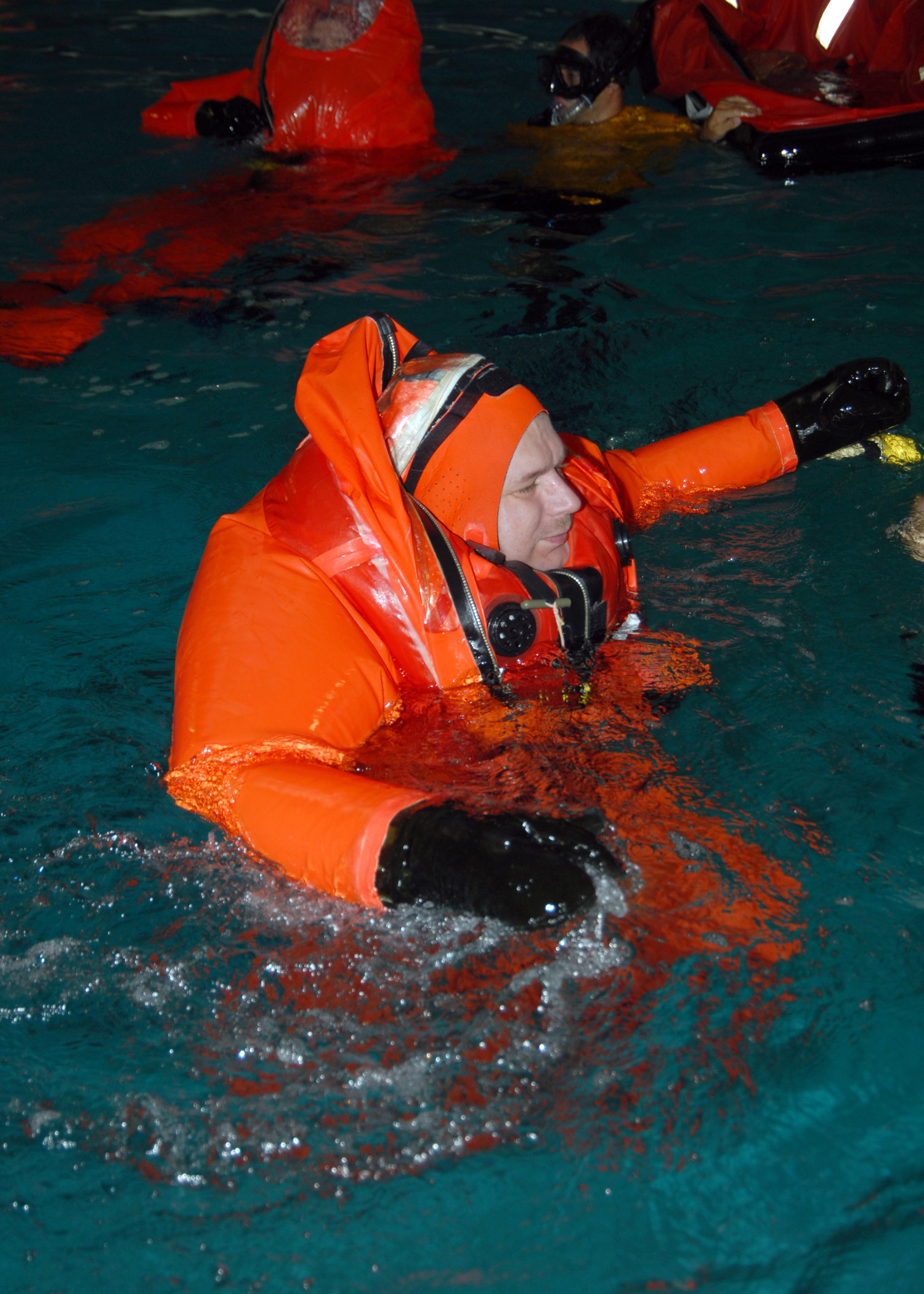 SILVERDALE, Wash. (May 17, 2007) - Sonar Technician (Submarine) 1st Class Stanley Lowe, assigned to USS Michigan (SSGN 727), learns how to use the Submarine Escape and Immersion Equipment (SEIE) MK-10 at the Naval Base Kitsap Fitness and Aquatic Center. The SEIE MK-10 is a new survivability system the Navy is using to help Sailors escape from a submarine in distress. U.S. Navy photo by Mass Communication Specialist 2nd Class Eric J. Rowley (RELEASED)